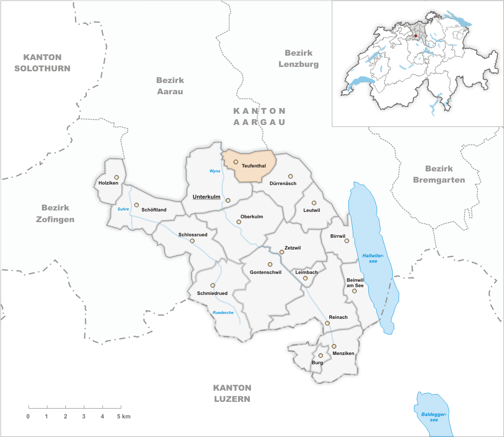 Municipality Teufenthal